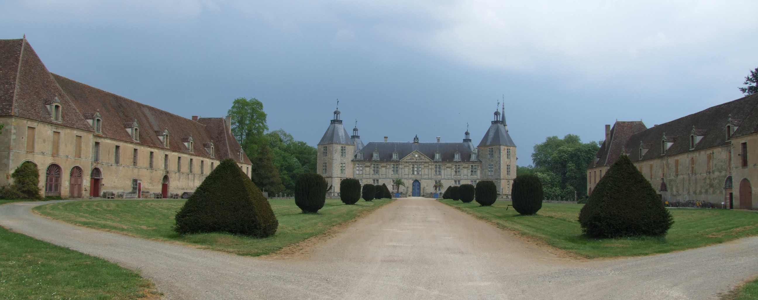 Château de Sully, Saône-et-Loire